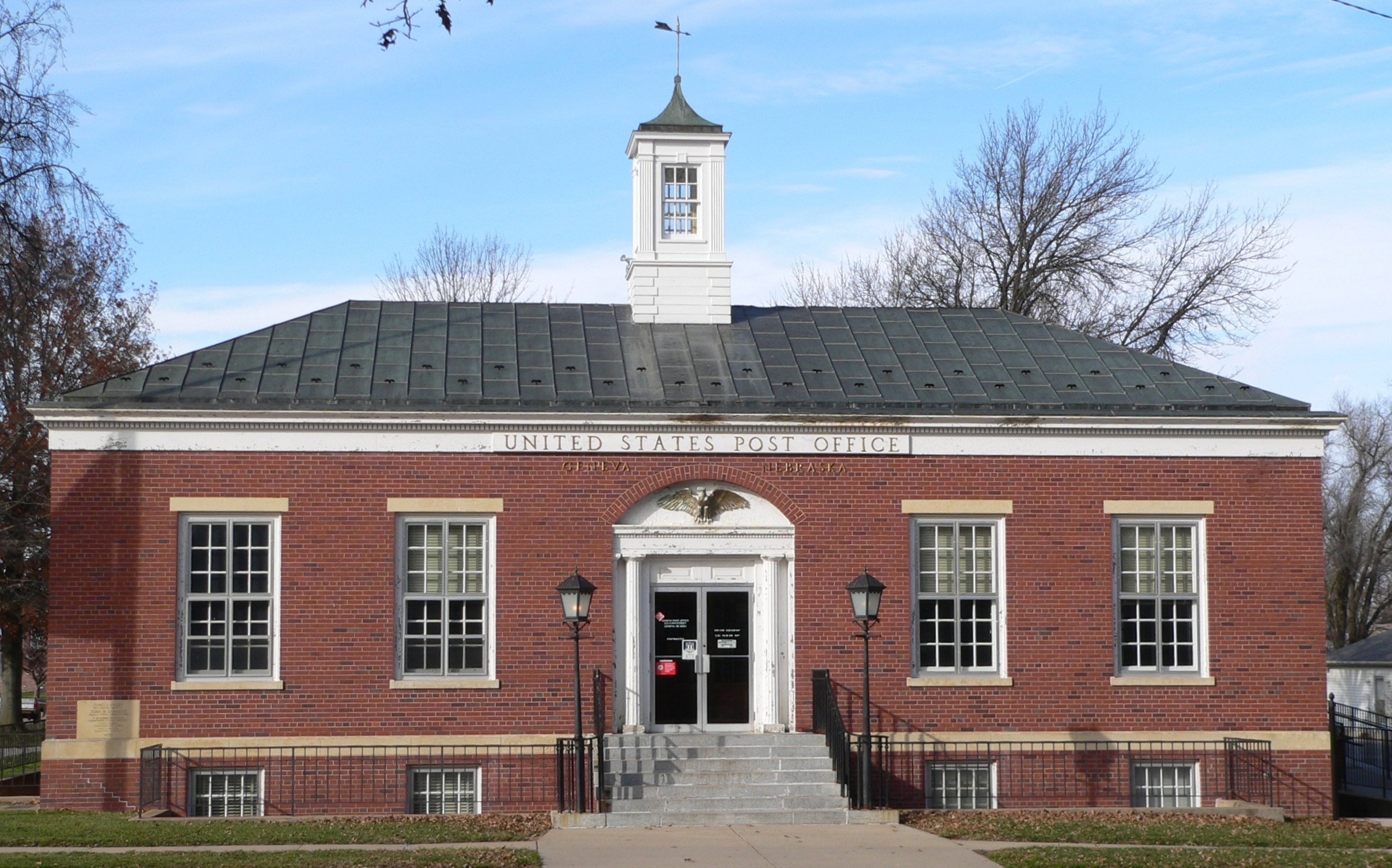 U.S. Post Office in Geneva, Nebraska; seen from the east. The building was designed in Colonial Revival style by architect Louis A. Simon; the cornerstone was laid in 1939. The building is listed in the National Register of Historic Places.